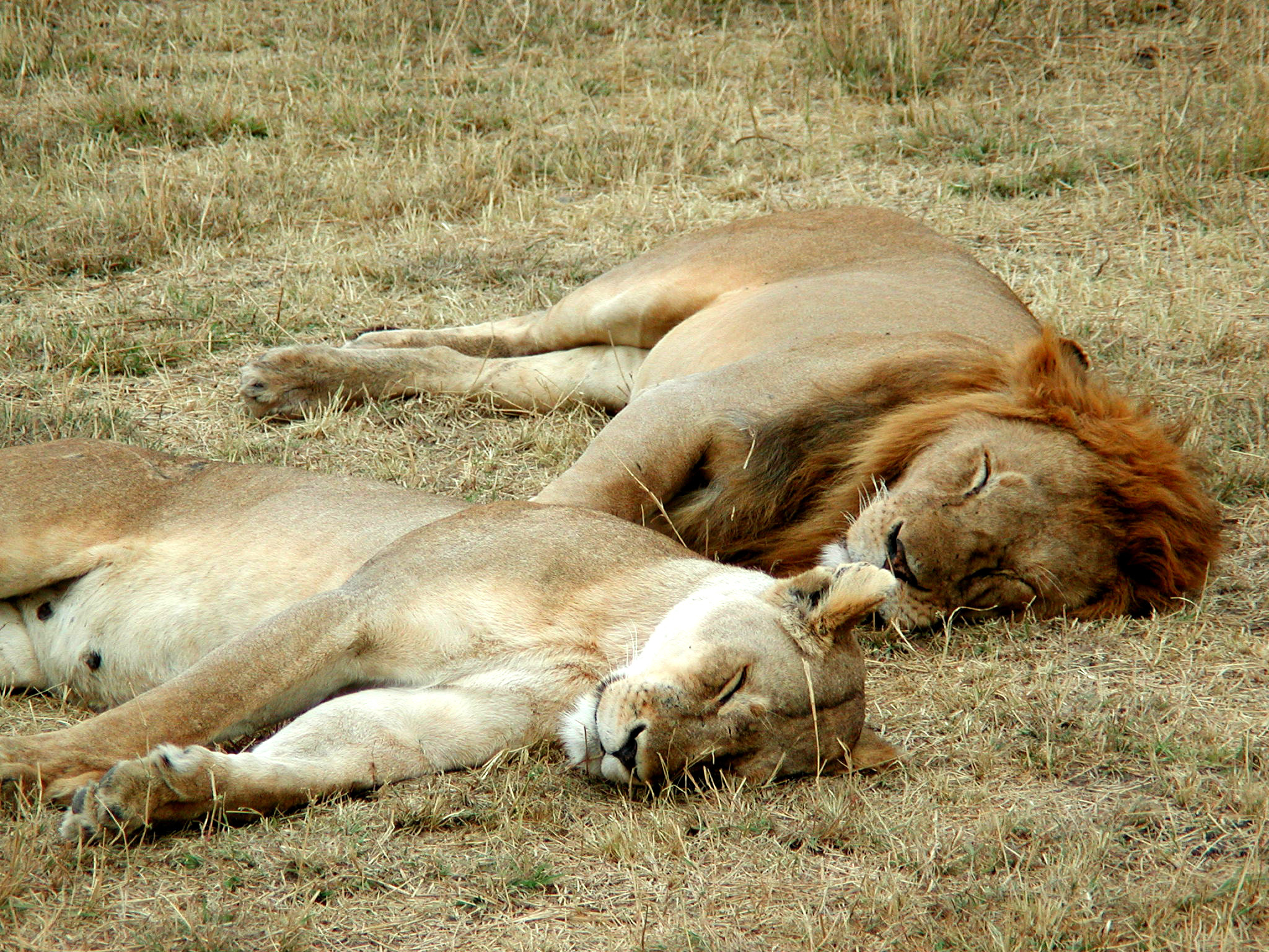 A lion and a lioness sleeping in the Serengeti.